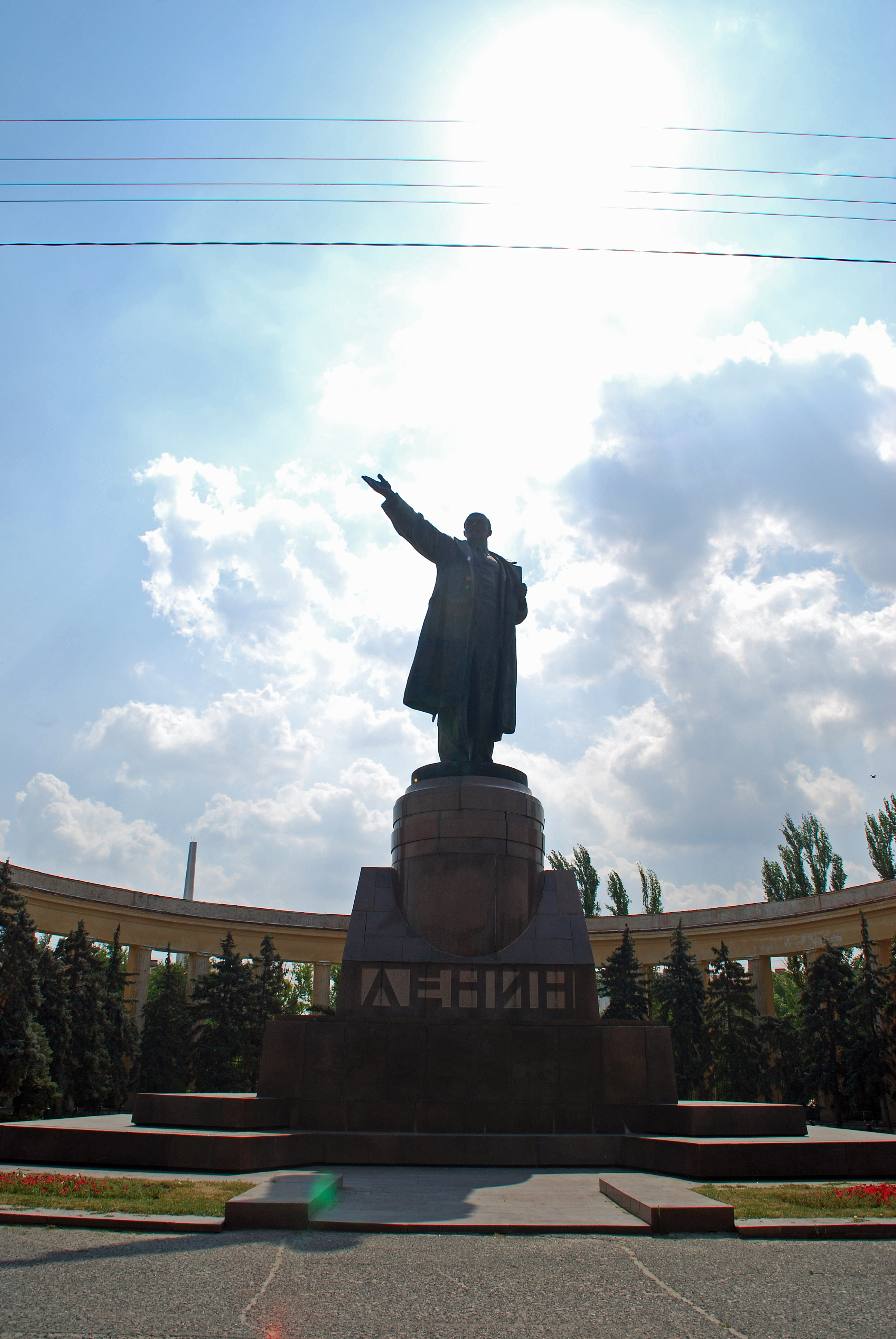 Statue of Lenin in front of Pavlov's House in Volgograd.